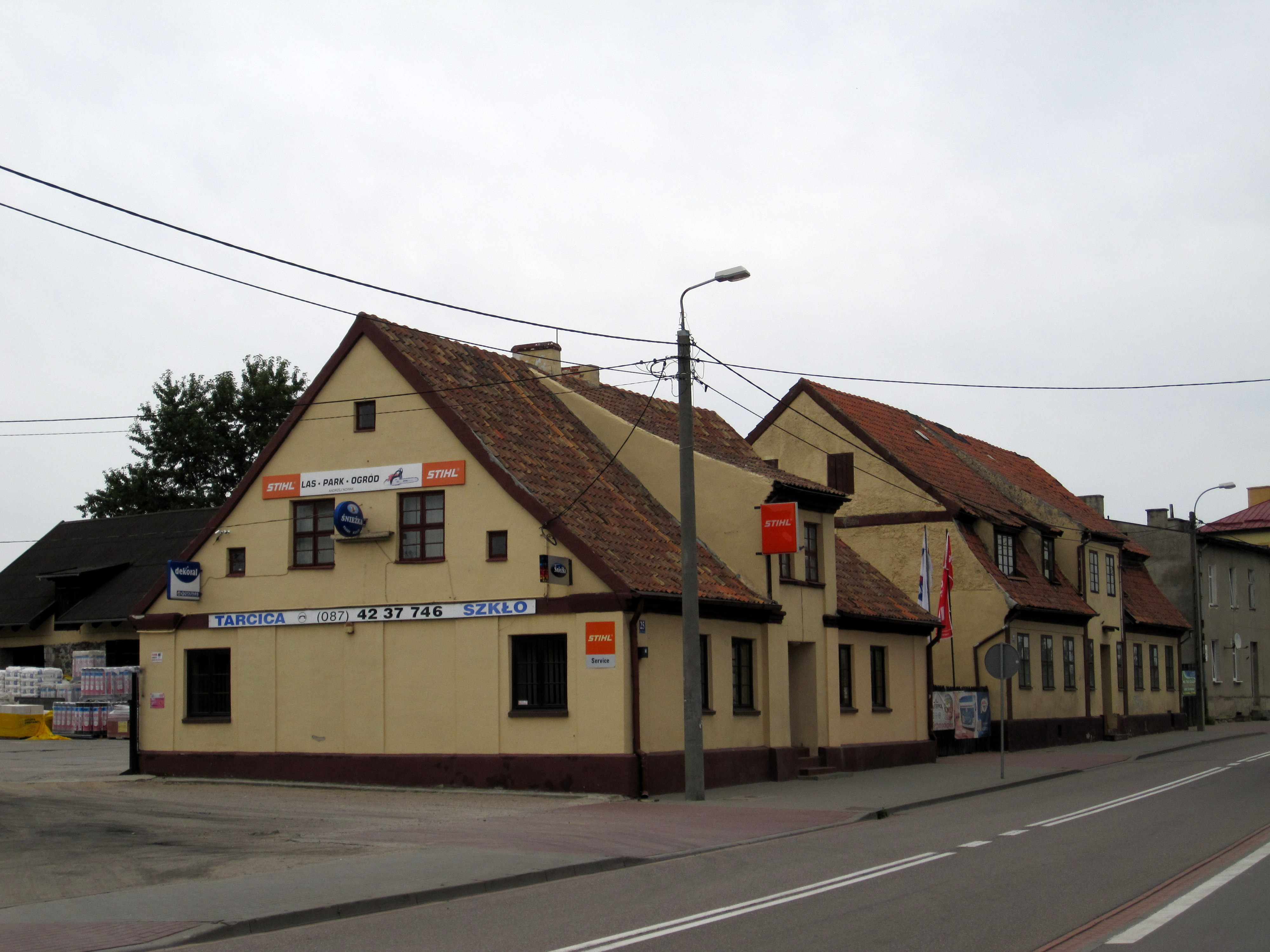 Building on 25 and 27 Ełcka street in Orzysz